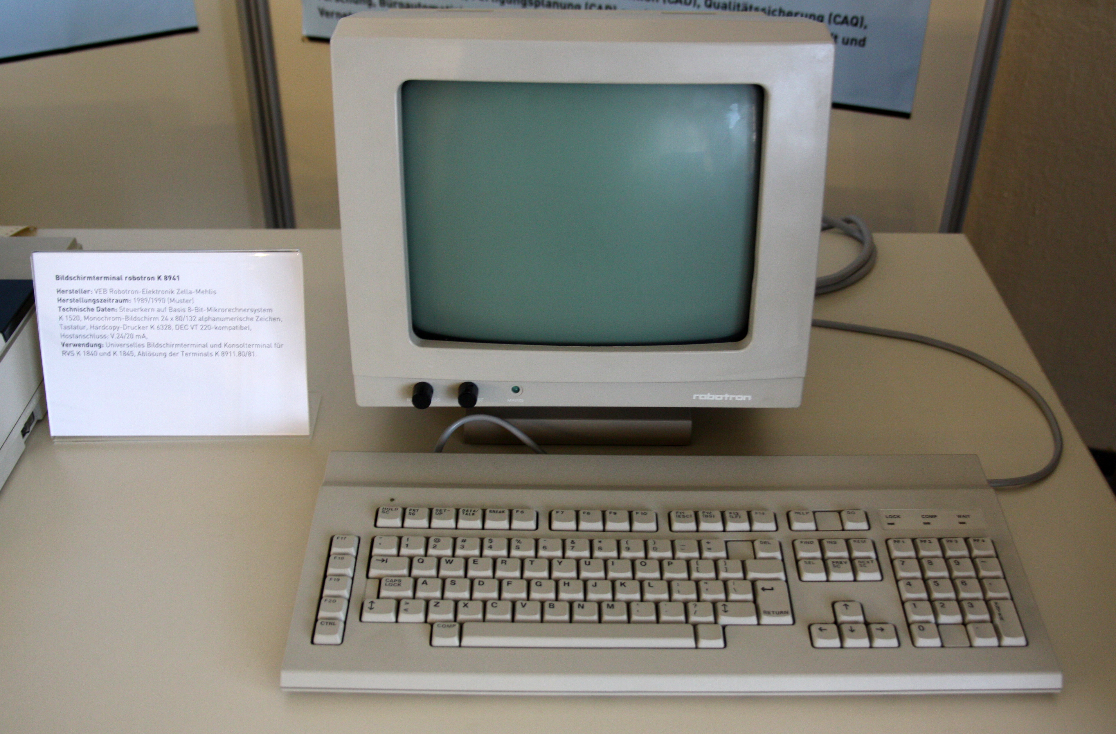 Robotron K8941 computer terminal, recorded in the Technical Collections Dresden